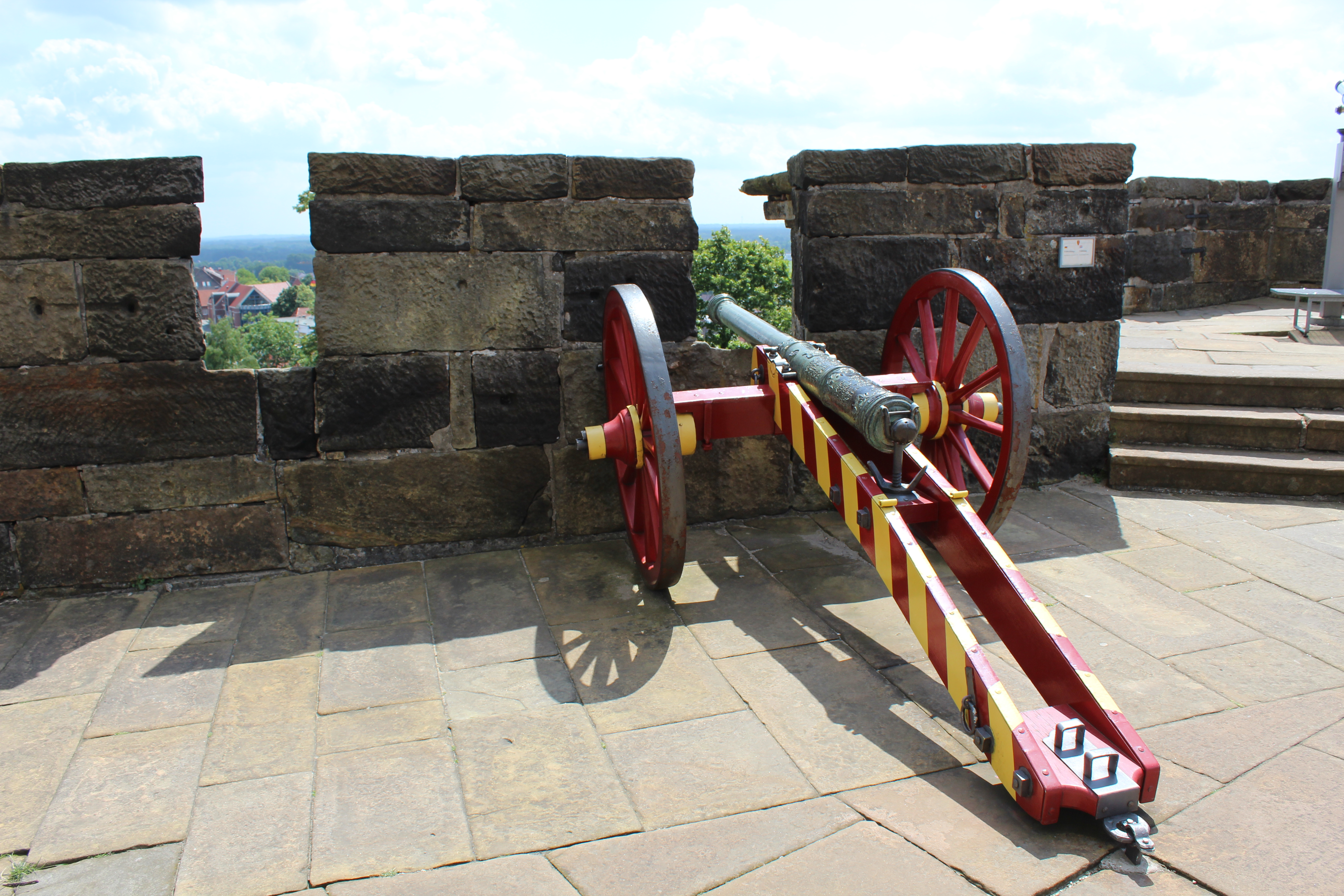 Field gun, Burg Bentheim, Germany